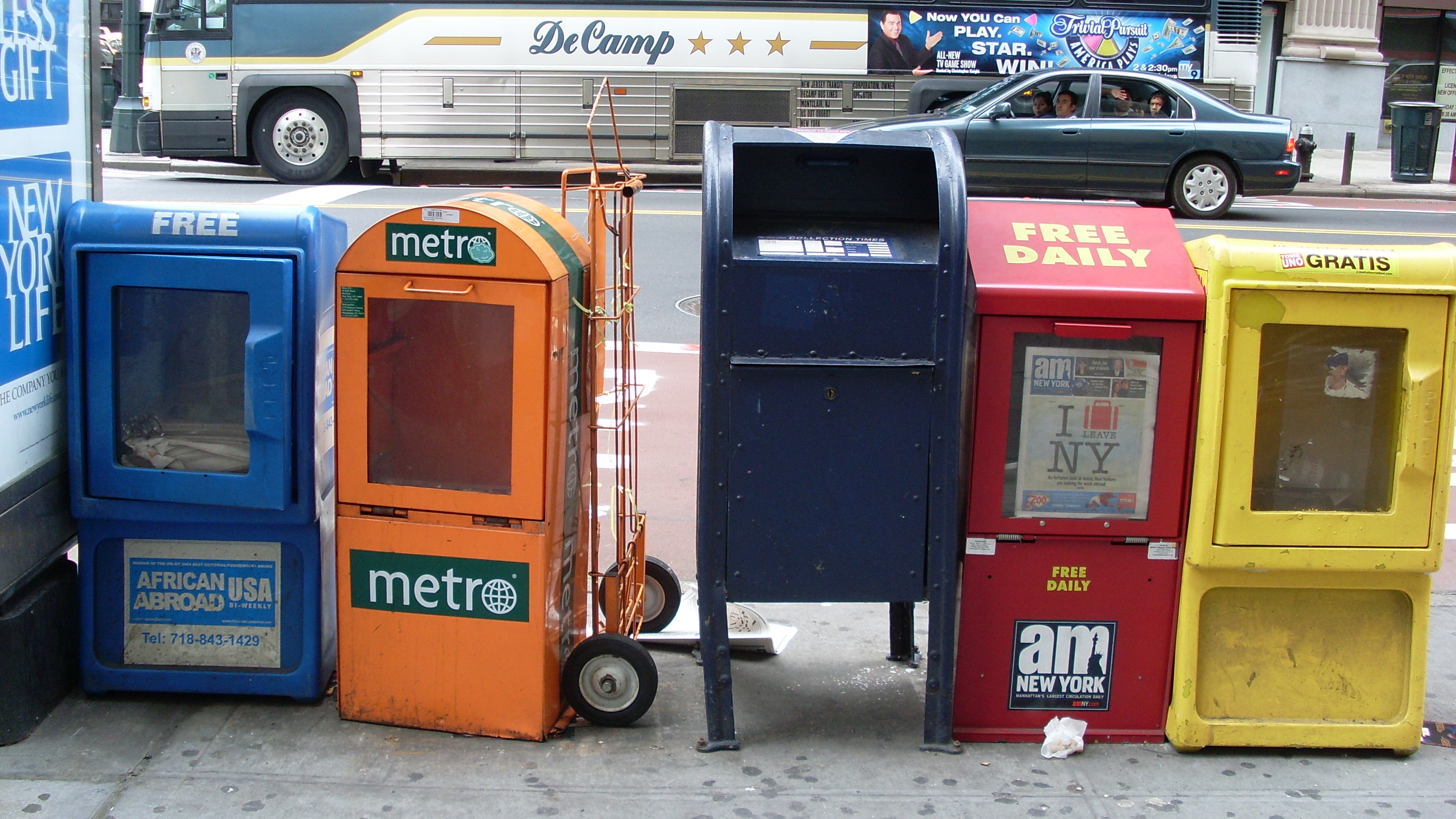 This photo is of Wikis Take Manhattan goal code S10, Newsstand.